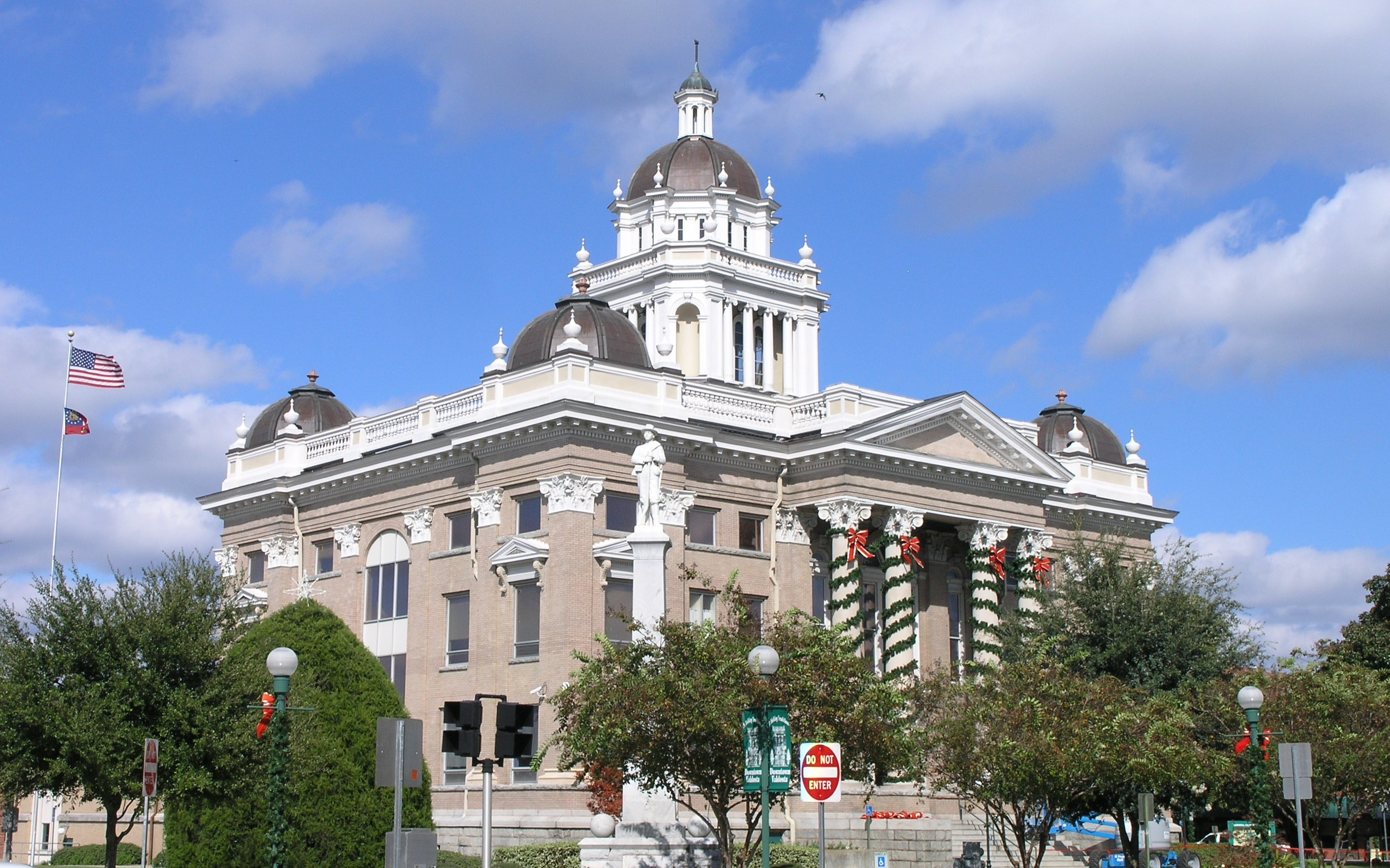 Picture of Valdosta, Georgia